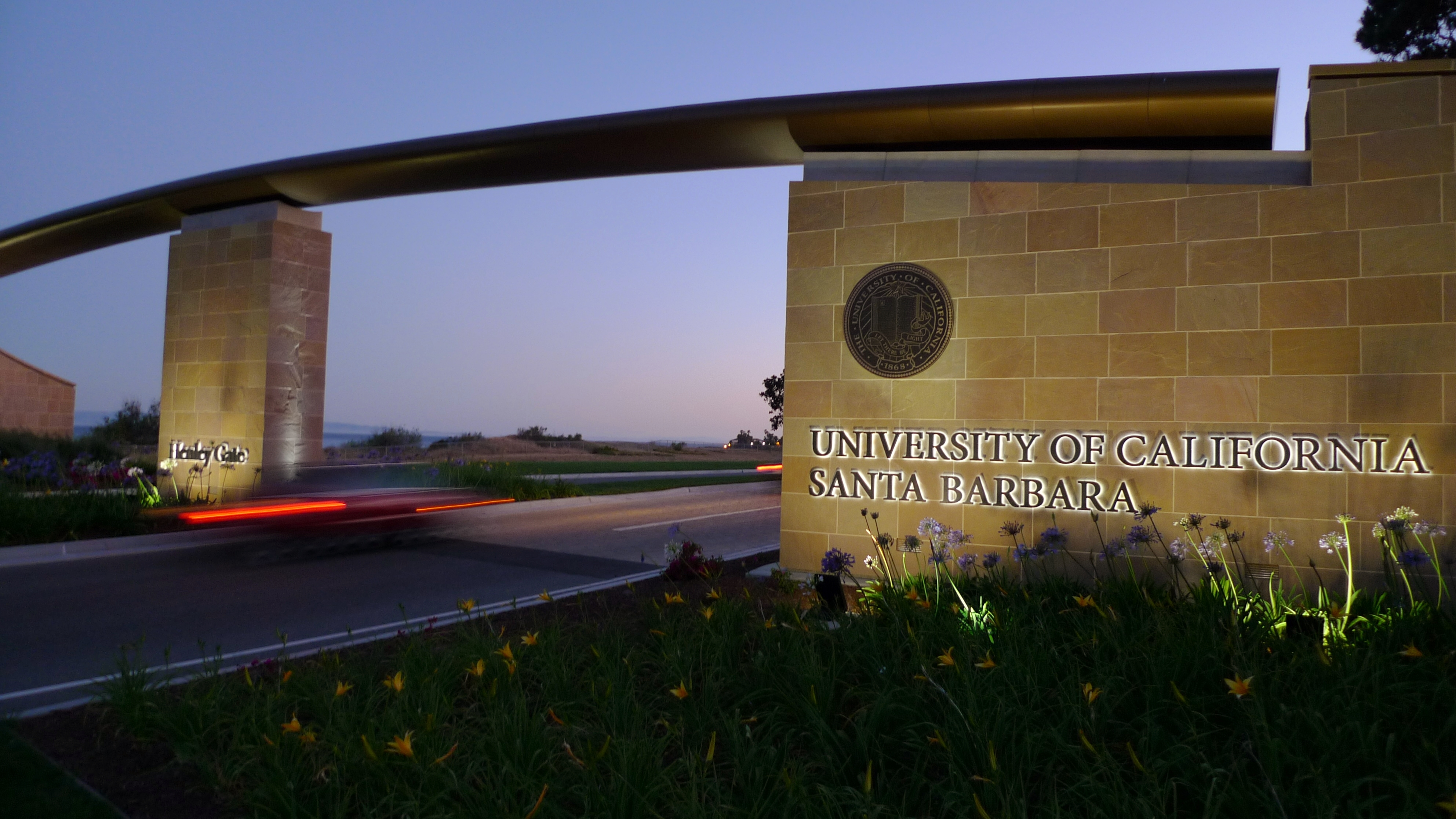 UCSB Henley Gate on May 6, 2009.